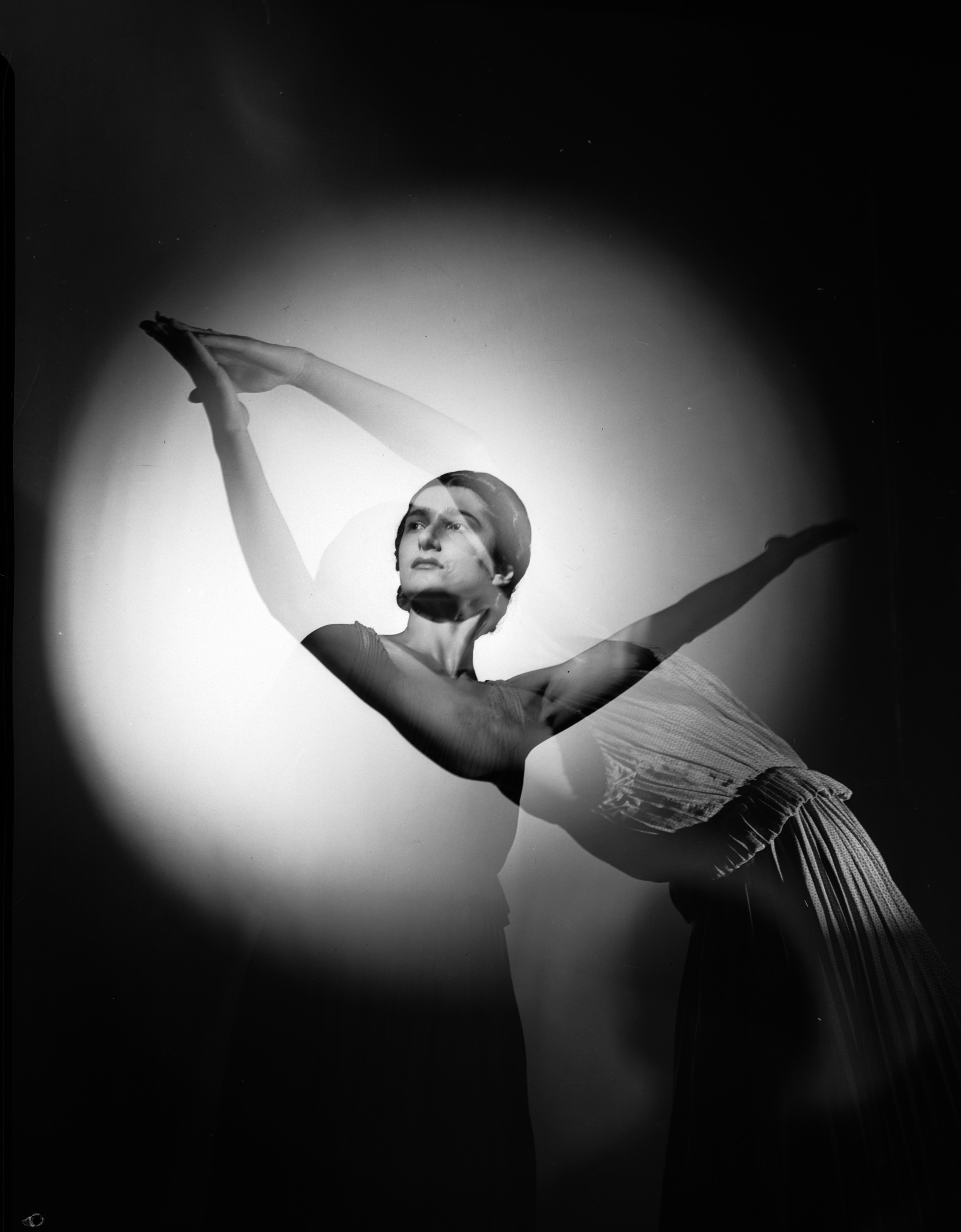 Format: Negative Find more detailed information about this photographic collection: .au/item/itemDetailPaged.aspx?itemID=414356 Search for more great images in the State Library's collections: .au/search/SimpleSearch.aspx From the collection of the State Library of New South Wales